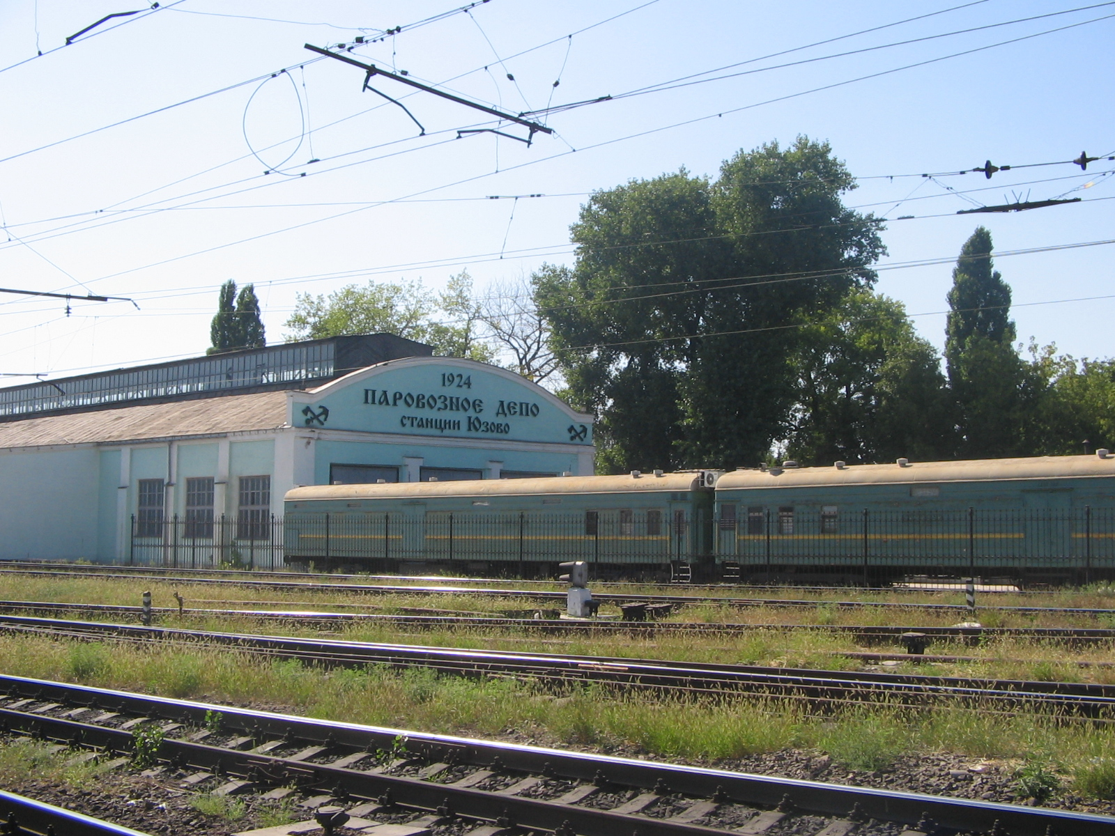 Railroad car shed of Yuzovo railway station built in 1924. There are two Railway post offices near the shed.